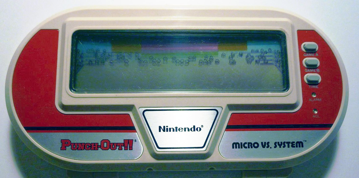 Punch Out!! (also known as Boxing) - Game&Watch - Nintendo